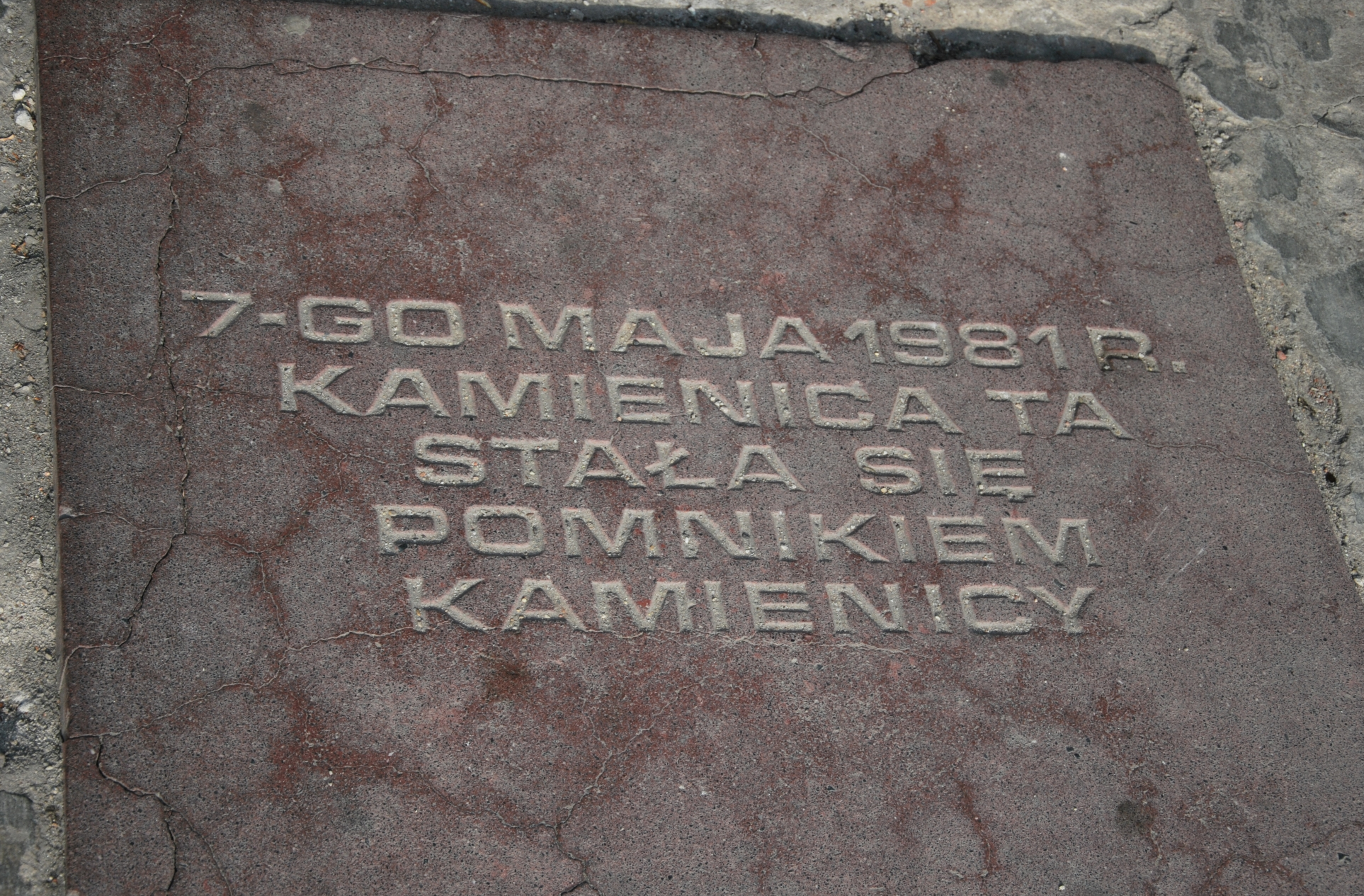 Plaque in tenement house in Łódź, Piotrkowska Street 164, building called "The Tenement House Memorial"